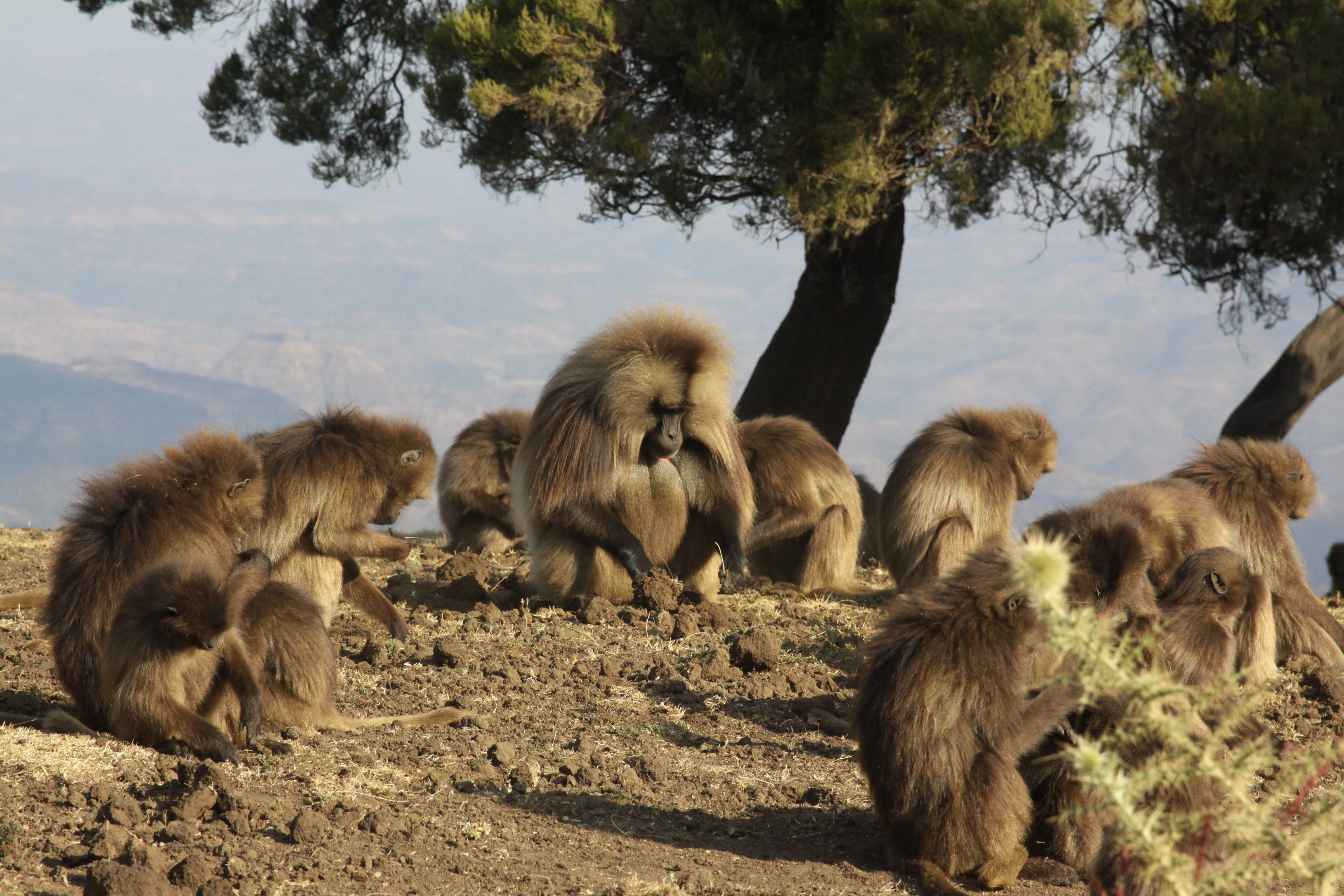 Gelada in the Simien Mountains, Ethiopia.